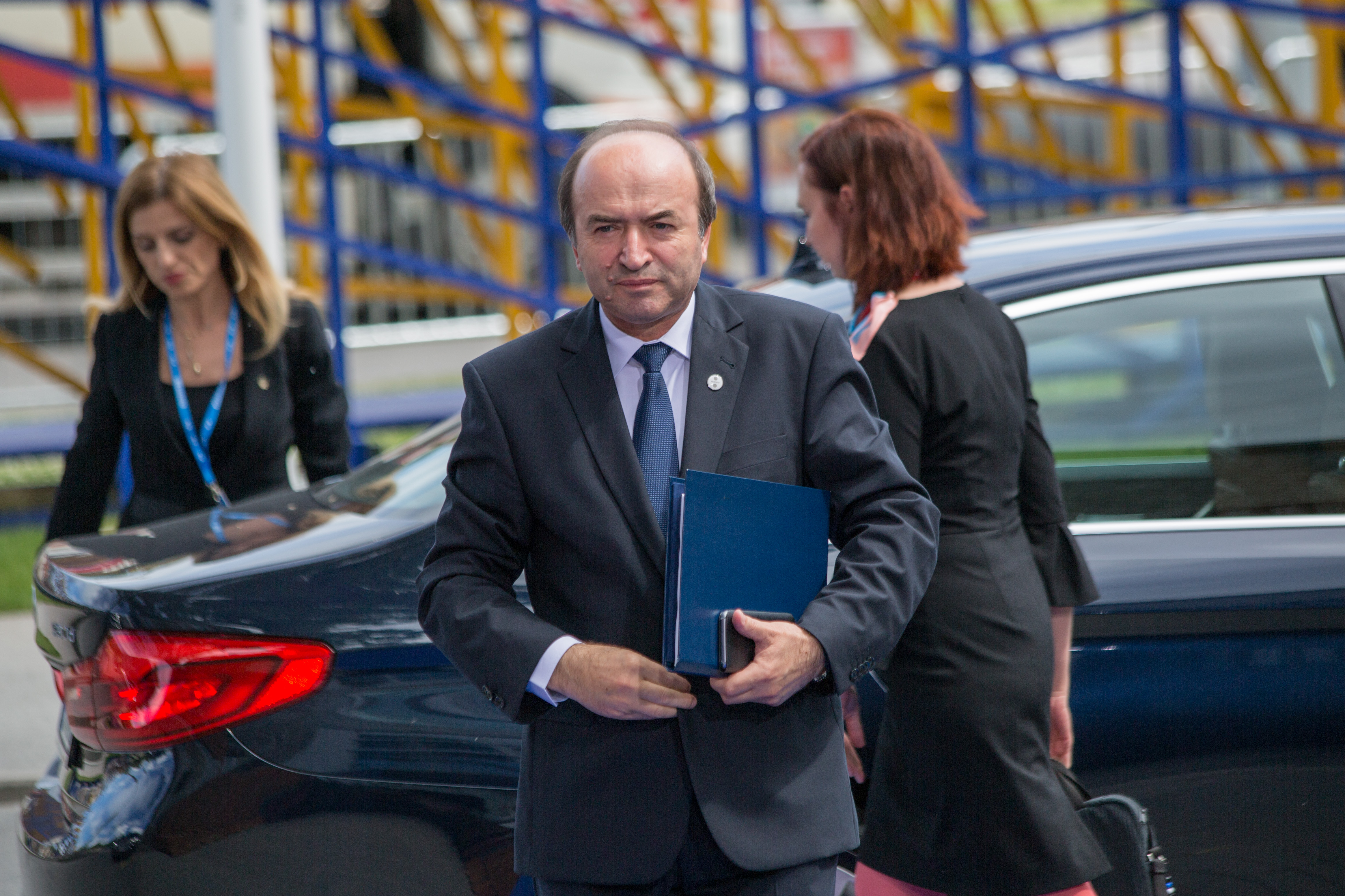 Tudorel Toader. Informal meeting of justice and home affairs ministers